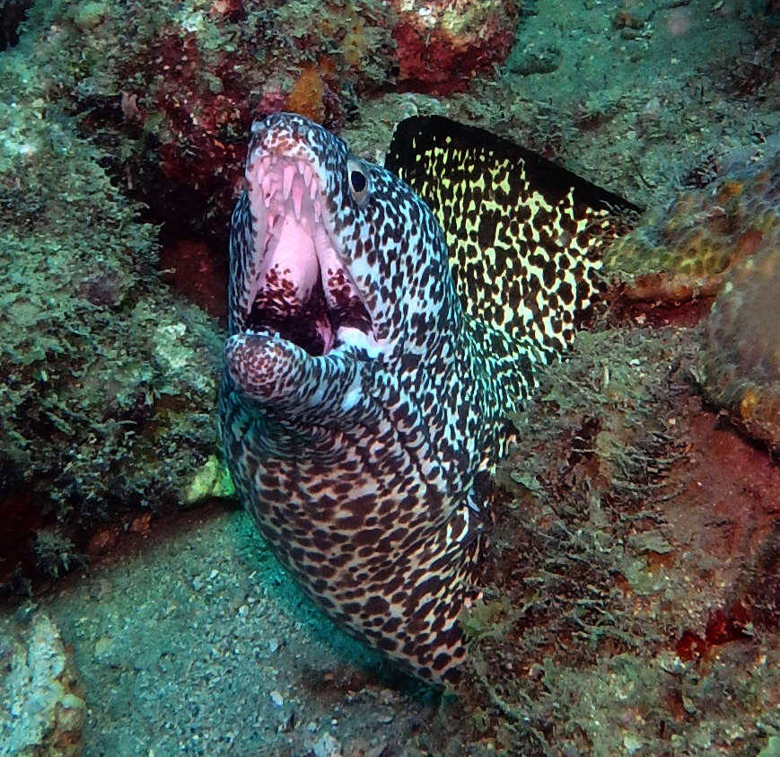 Gymnothorax moringa